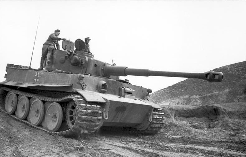 Information added by Wikimedia users.Schwere Panzer-Abteilung 504 (Size and style of number on turret, located in Tunisia)[1] Correction: This is a Tiger from the Schwere Panzer-Abteilung 501 based on the unique customizations that Abteilung made to their Tigers. Specifically, the cut back front fenders and the lights moved to the front of the glacis plate from the top of the hull.